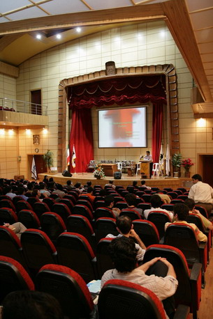 Exeptional talents ceremony